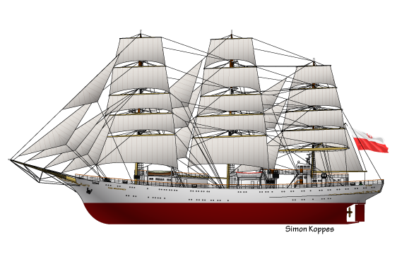 Drawing of the Polish sailing ship Dar Młodzieży